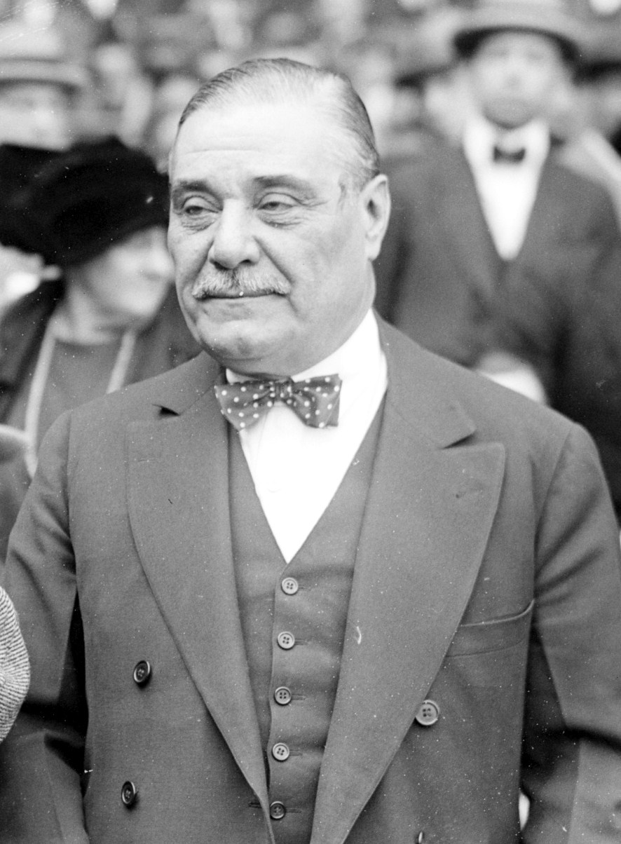 Jacob Ruppert, cropped from a larger image featuring Judge Kenesaw Mountain Landis at Yankee Stadium.